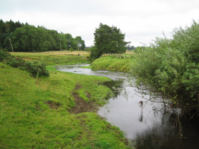 The River Wansbeck runs through the Borough of Castle Morpeth and the Wansbeck district in the county of Northumberland, England.